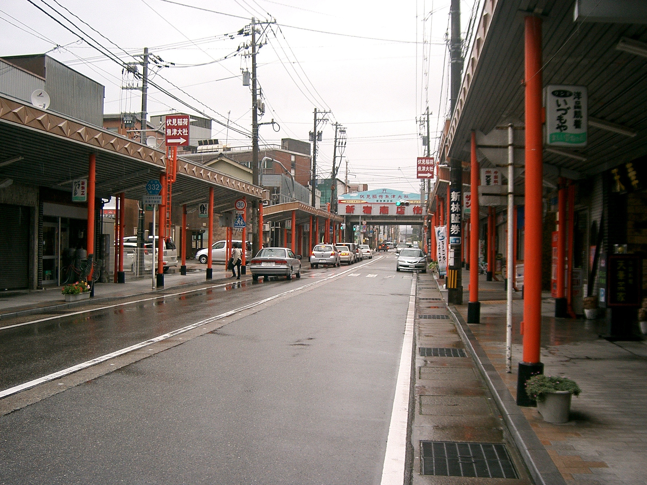 Toyama prefectural road 332 Daikaiji-Shinhonmachi line. Looking east from Shinjuku, Uozu city.